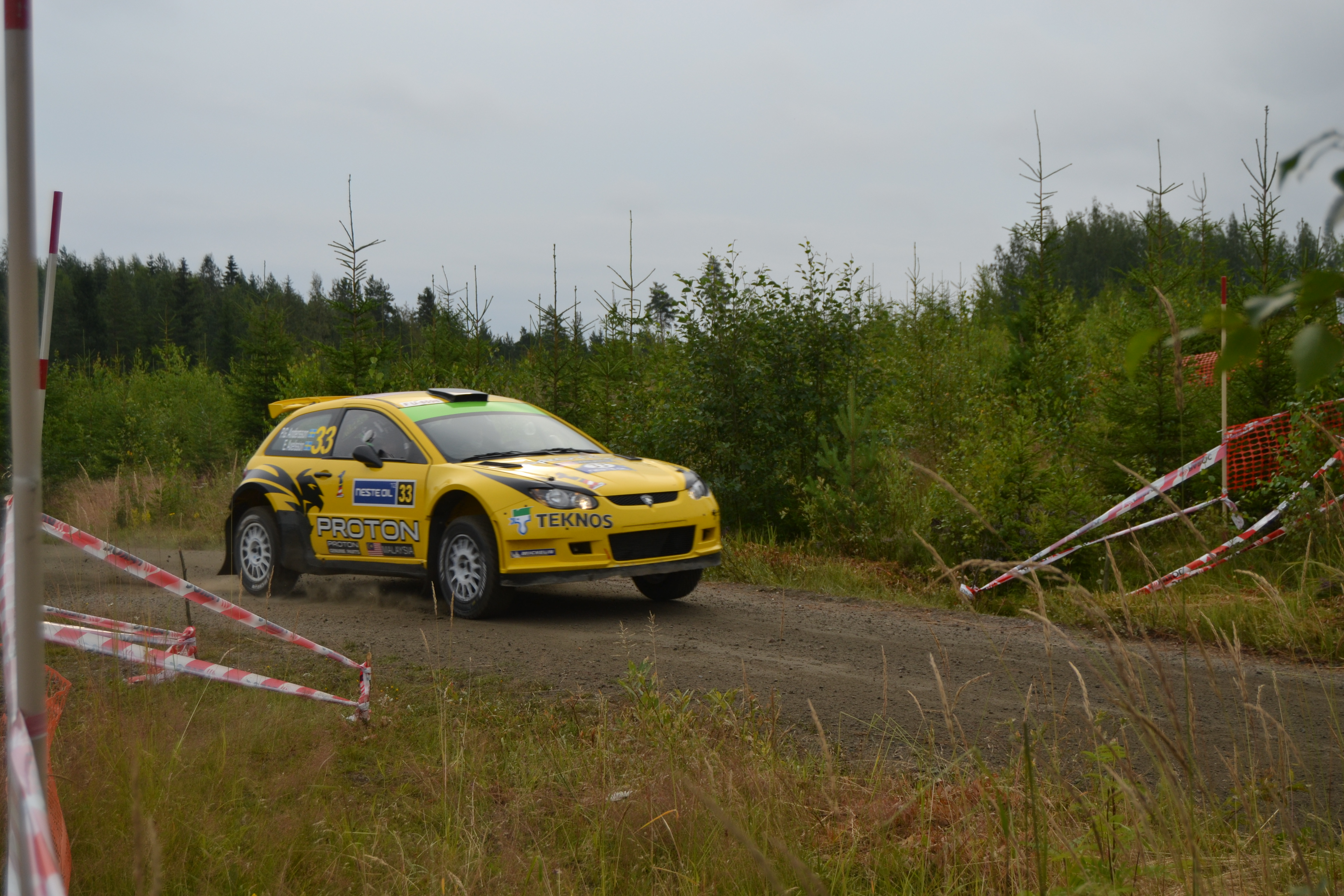 Per-Gunnar Anderson at 1sy Surkee stage at 2012 Rally Finland Unknown